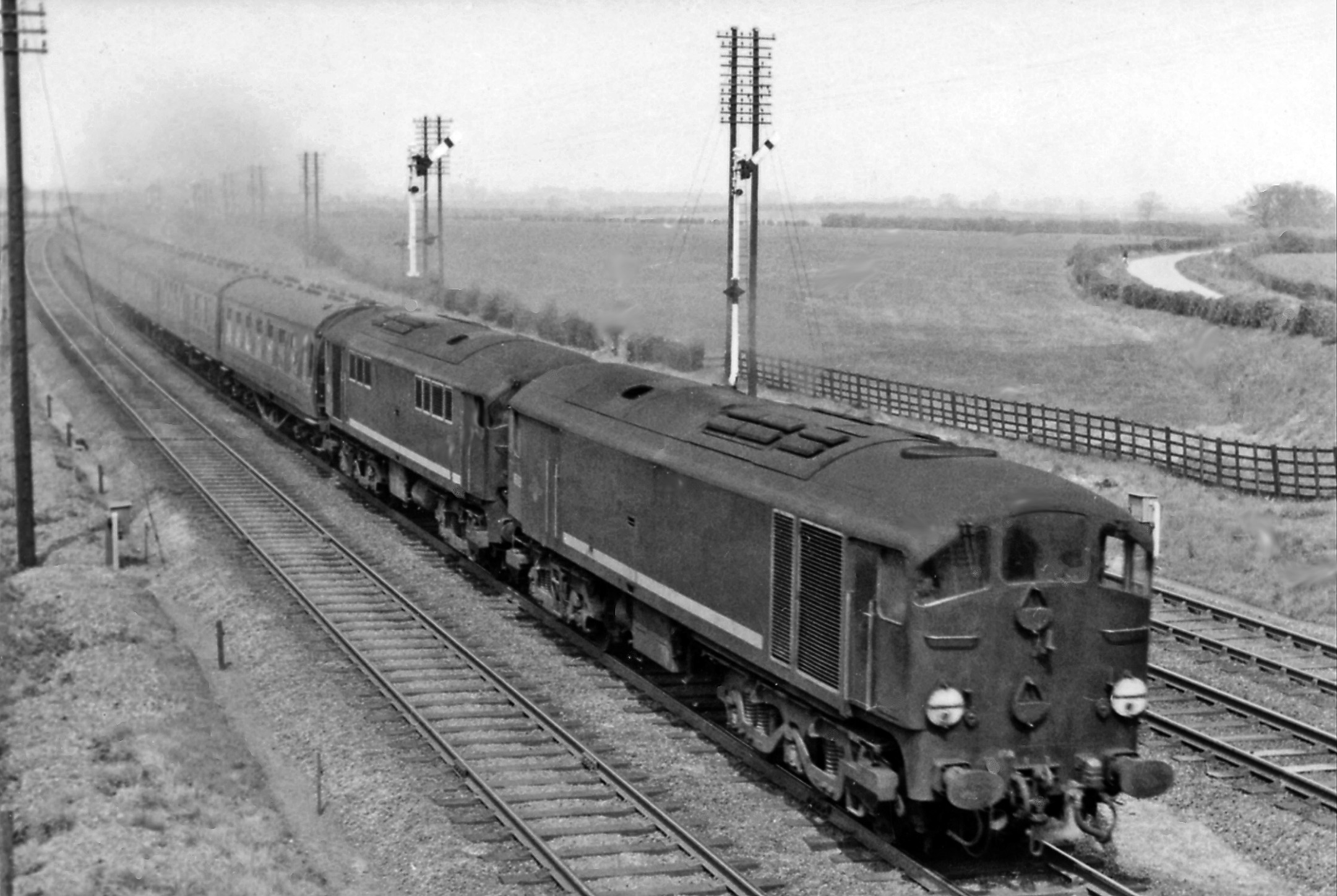 Diesel-hauled Up Midland Main Line express near Millbrook. View northward, towards Bedford and the North; ex-Midland St Pancras - Leicester - Sheffield main line. The 10.25 Manchester Central - St Pancras is unusually headed by a pair of Metropolitan-Vickers 1,200 hp Type 2 (later Class 28) Co-Bo Diesel-electrics, Nos. D5703 + D5710. Introduced in 8/58, only 20 of these unusual locomotives were built: they were handicapped by limited route availability and frequently broke down, so lasted only 11 years in BR service.